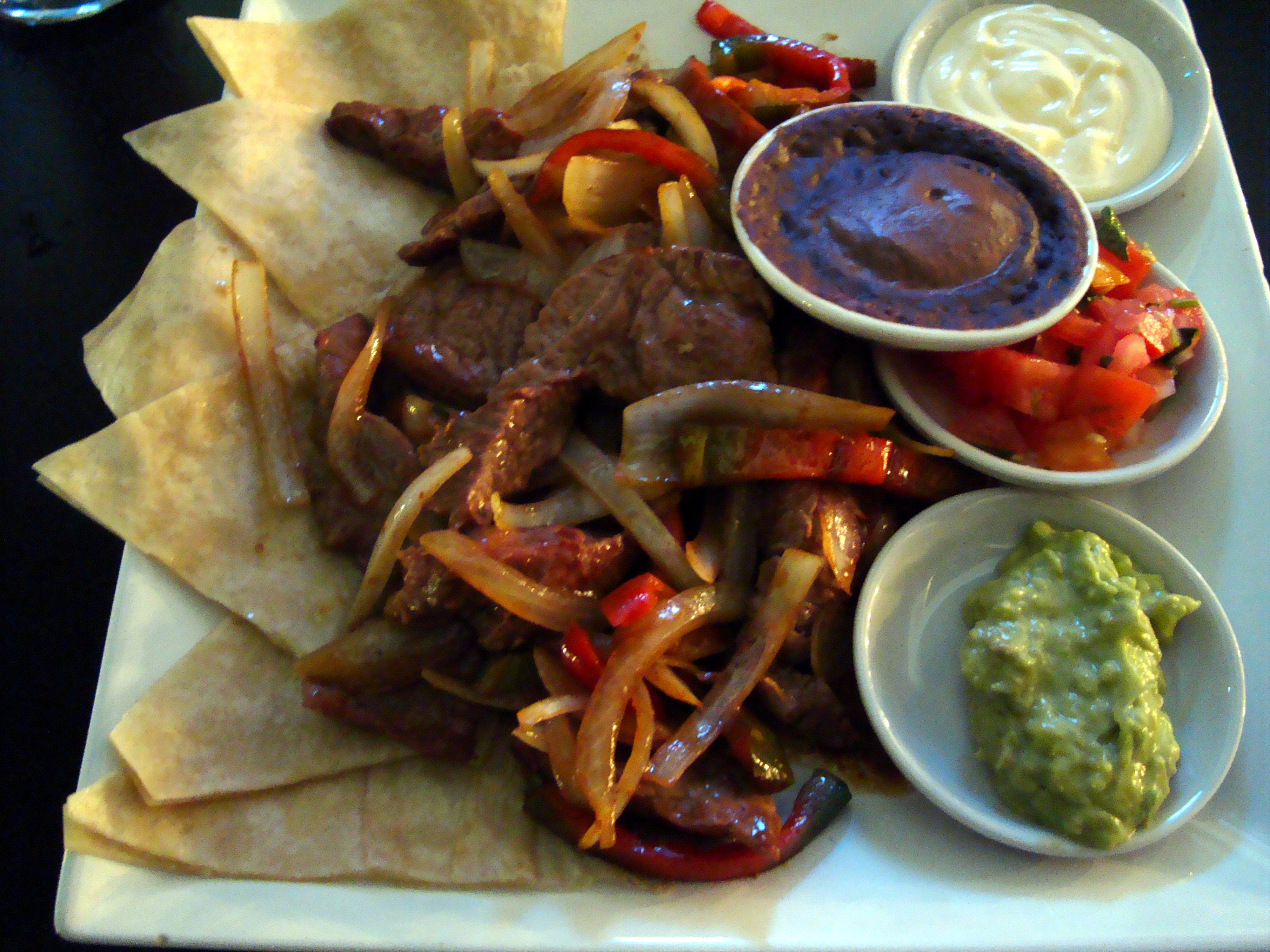 Beef fajitas in San Jose, Costa Rica